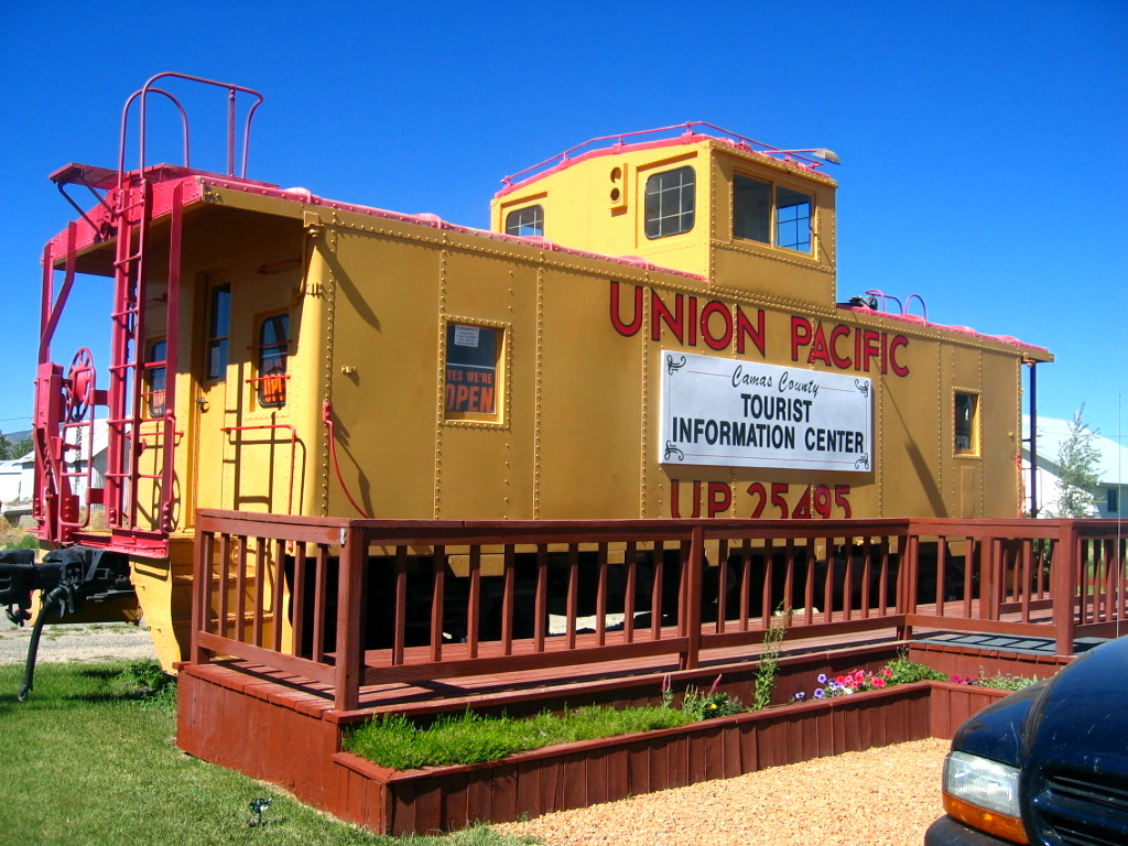 The visitor caboose in Fairfield, Idaho.